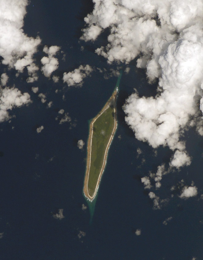 NASA astronaut image of Flint Island (Kiribati) in the Pacific Ocean